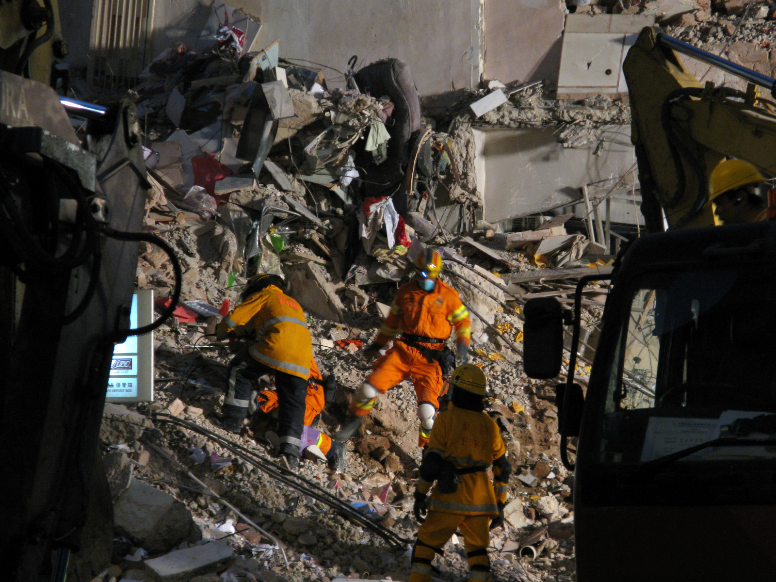 Tenement Building collapse in Ma Tau Wai Road, 2010-01-29